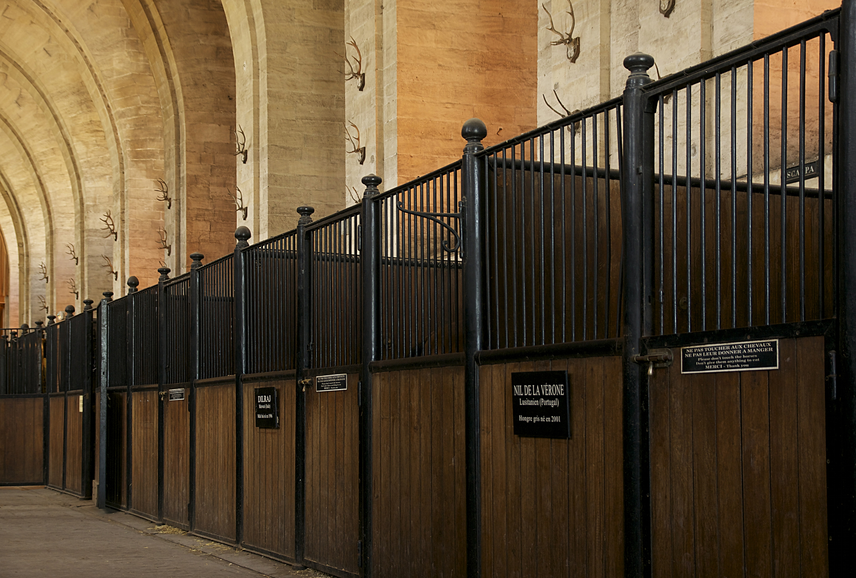 Some horse stables, Musée vivant du Cheval, Chantilly, France.